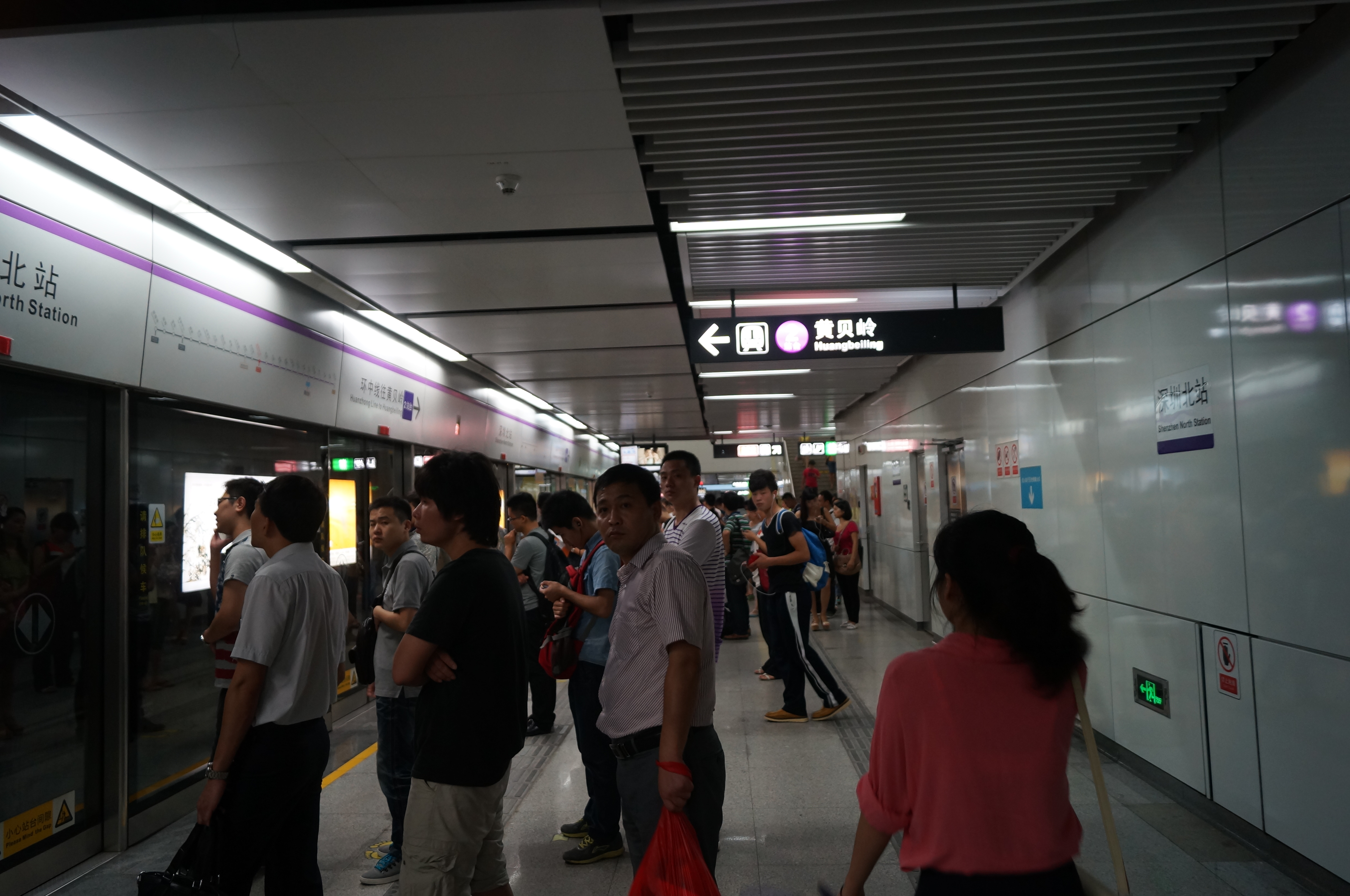 Shenzhen North Station Platform 2, Huanzhong Line.